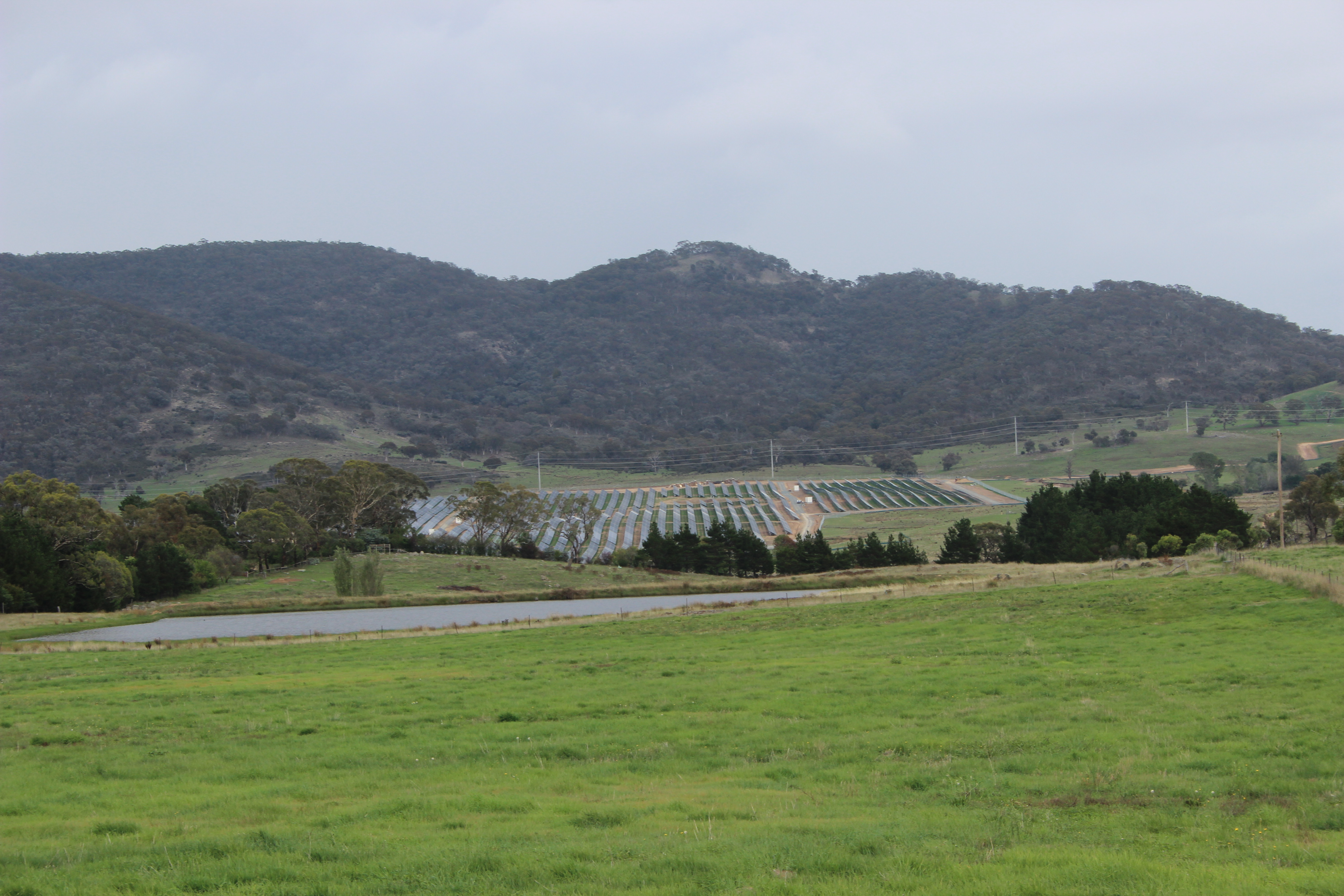 Royalla Solar Farm, ACT